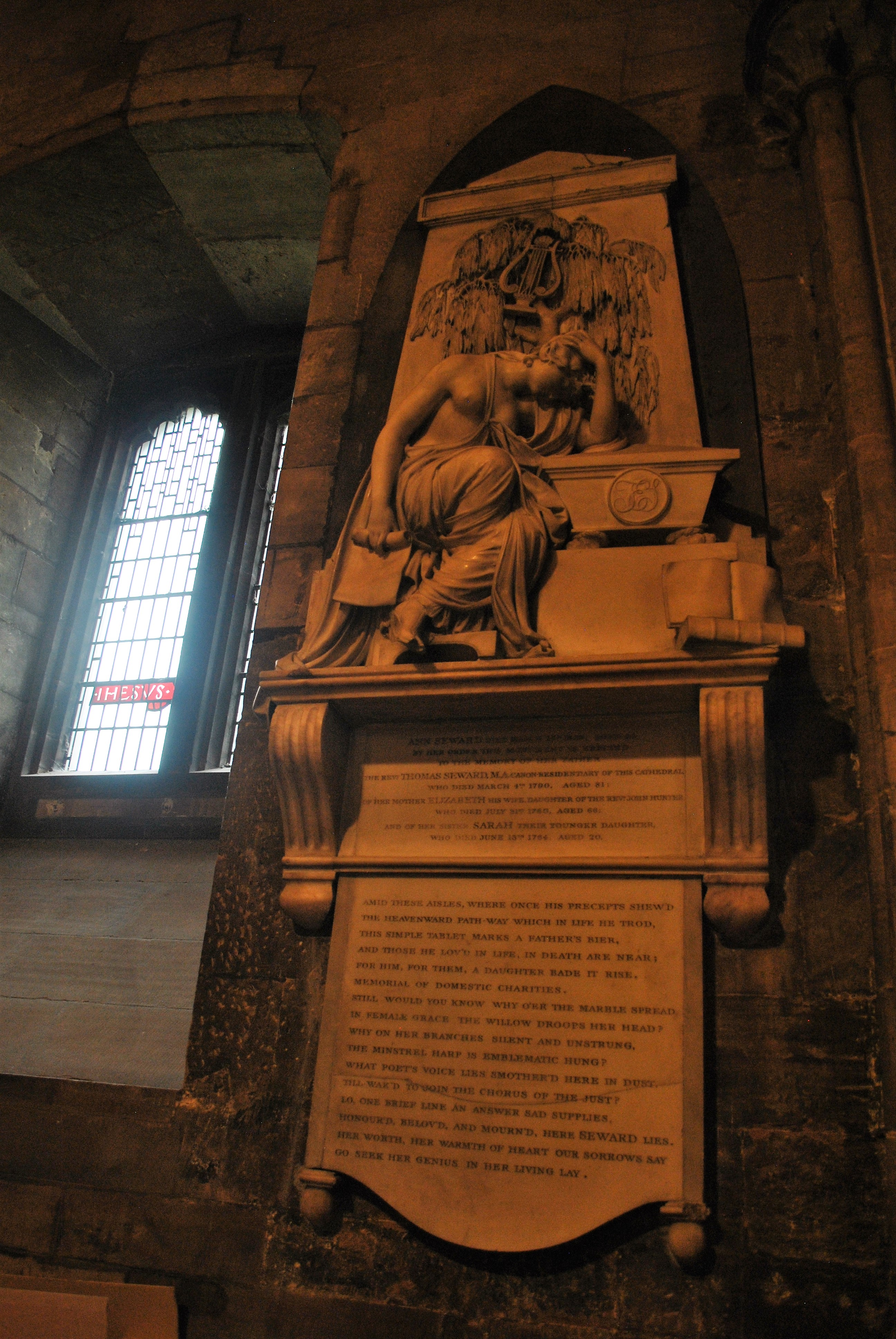 There is a plaque to Anna Seward (spelled "Anne", which is the spelling she used in her will) in Lichfield Cathedral.